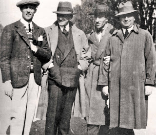 4 Moschettieri della Mille Miglia: (from left) Aymo Maggi, Franco Mazotto, Giovanni Canestrini, Renzo Castagneto. Year unknown. These were the founders of Mille Miglia (first took place 1927)